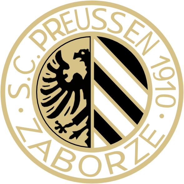 Logo of SC Preußen 1910 Hindenburg-Zaborze, German football team.